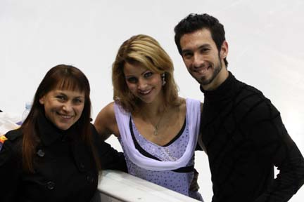 Tanith BELBIN and Benjamin AGOSTO at the boards with their coach Marina Zoueva at the 2007-2008 Grand Prix Final